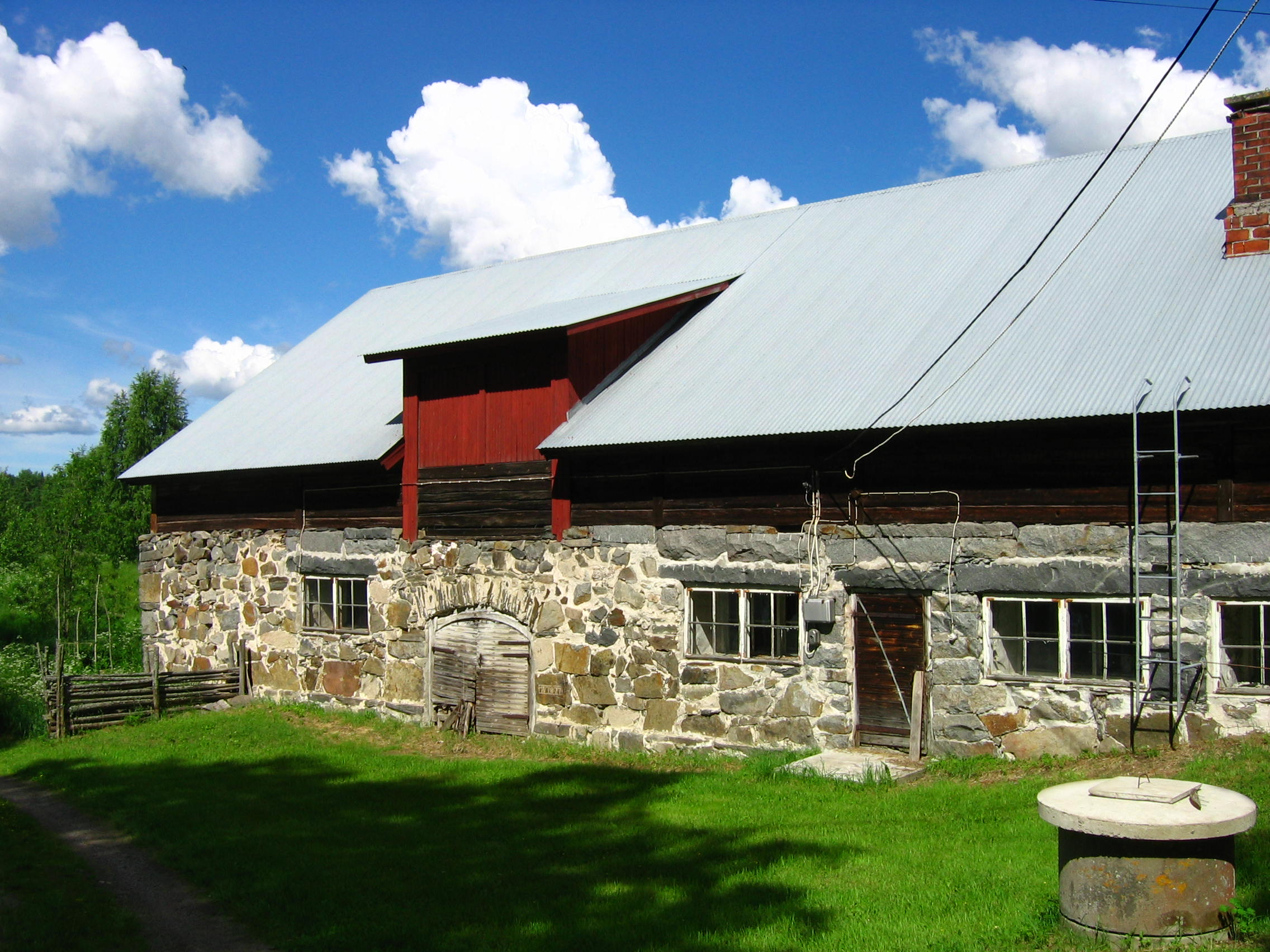 A traditional Finnish cowhouse made of stones and wood in 1877. The original shingle roof has been replaced with tin roof.